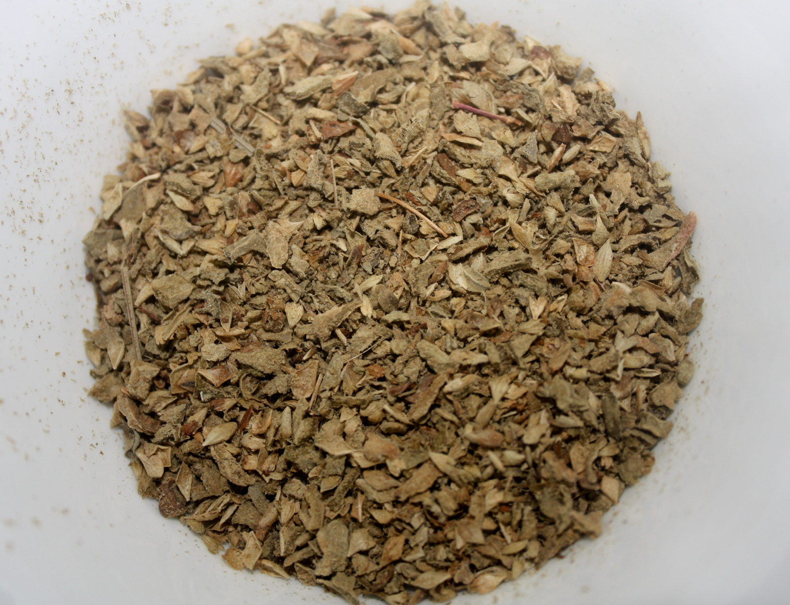 Oregano ( শুকনো অরেগানো),Kolkata, West Bengal, India